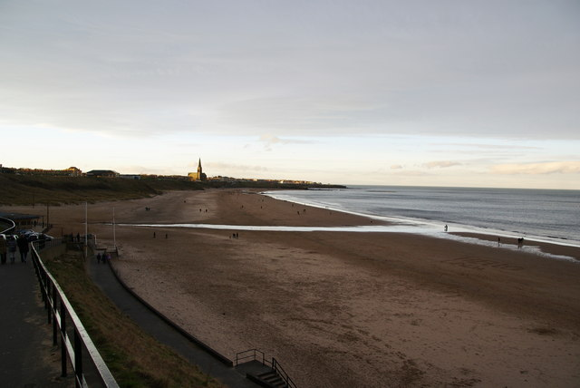 The beach at Tynemouth The sun was very bright and low in the west, and affected this lighting.